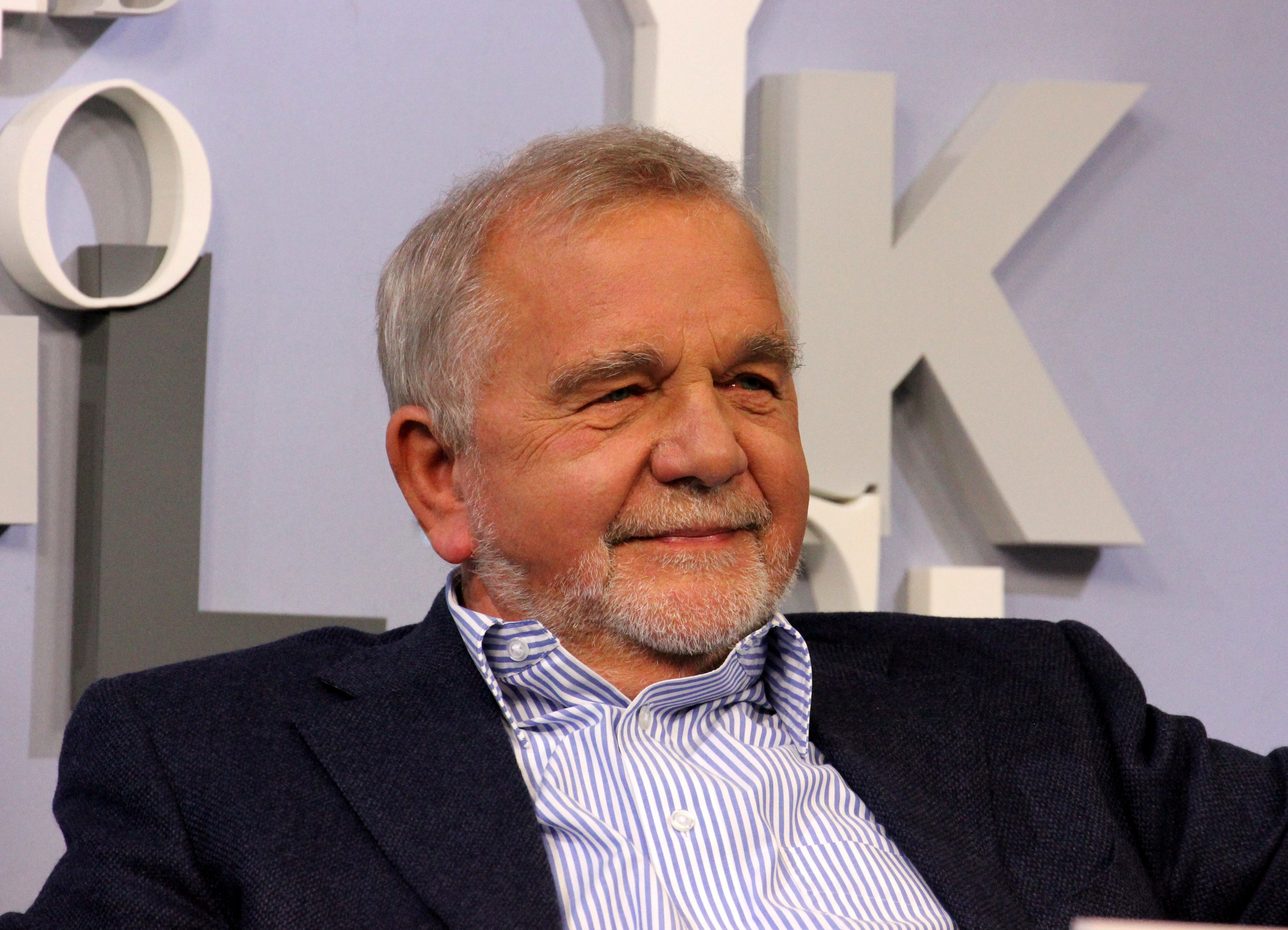 Rüdiger Safranski at Frankfurt Book Fair 2015